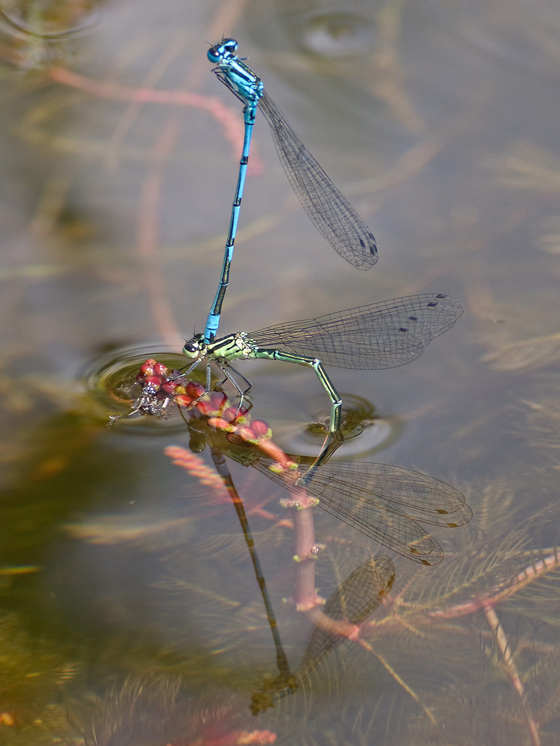 Hufeisen-Azurjungfer Coenagrion puella in oviposition, picture taken in Munich at a garden pond